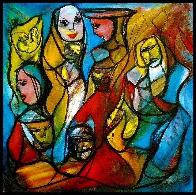 Samurai, 2013, Australia, oil on canvas (44.5cmX44.5cm) by Alex Mendelssohn.